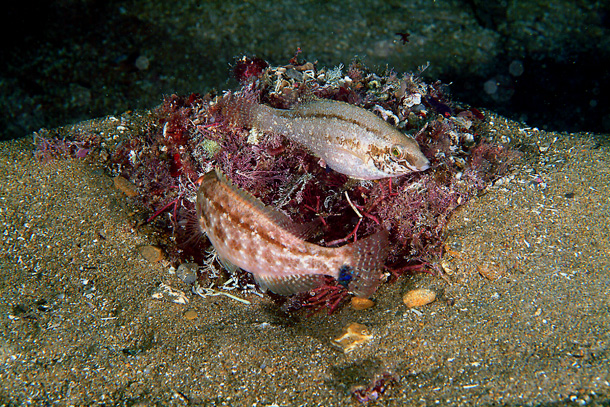 Symphodus cinereus (couple spawning) photographed near Tuscany coasts (Italy). Photo by Stefano Guerrieri.